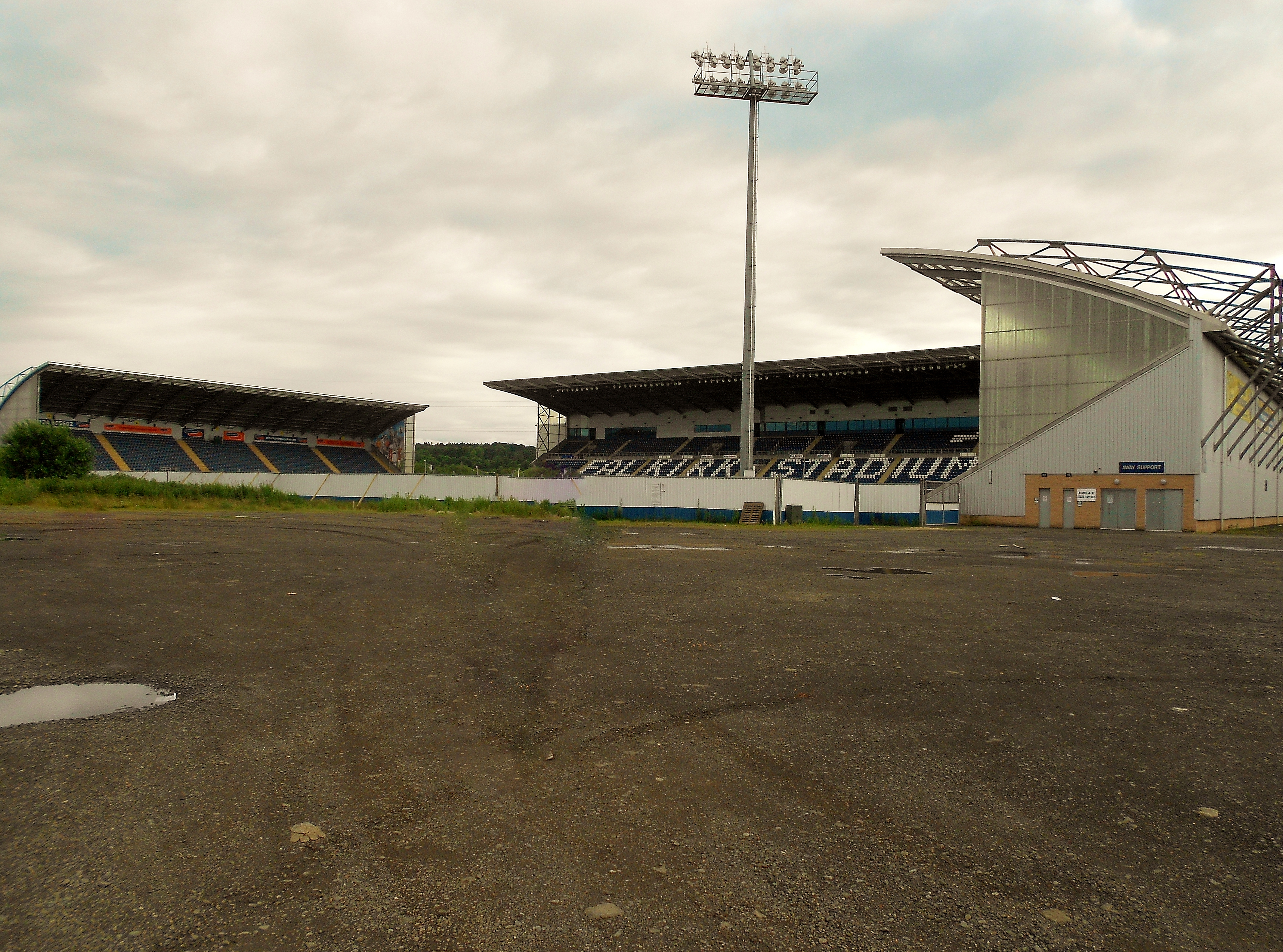 Photo of Falkirk Stadium